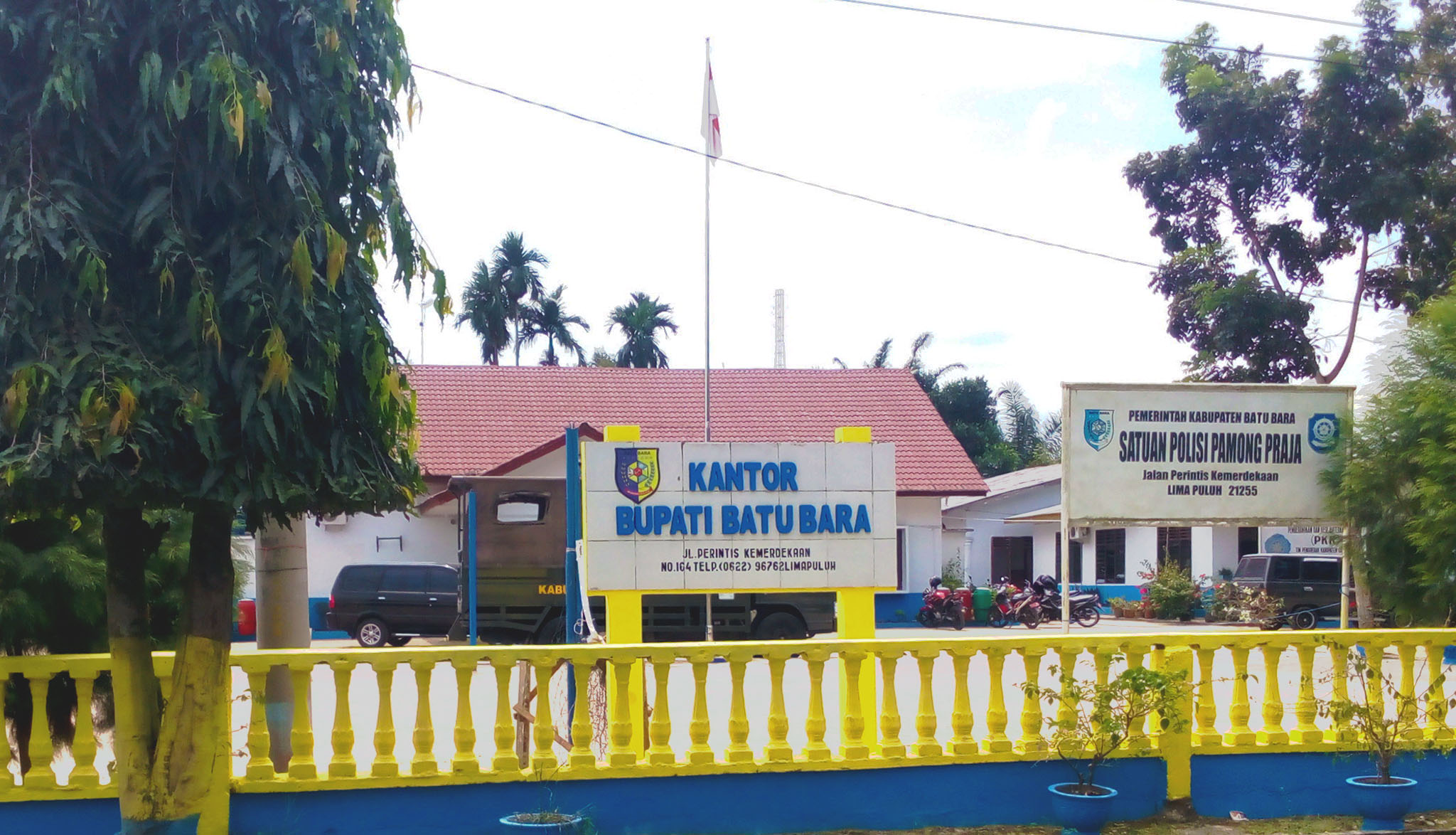 Office of Batu Bara, Sumatra Utara